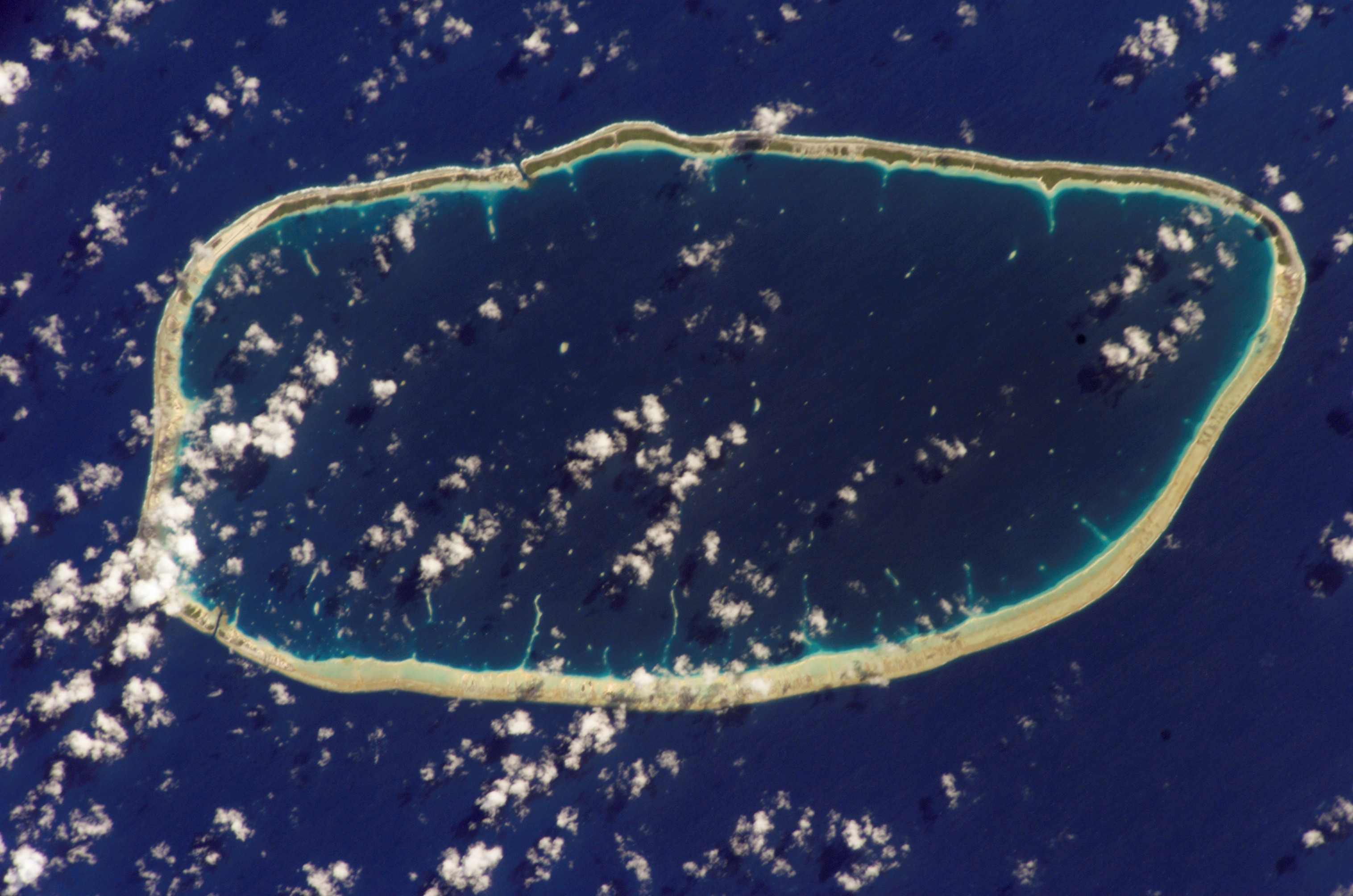 NASA astronaut image of Katiu Atoll (Tuamotu Archipelago, French Polynesia) in the Pacific Ocean